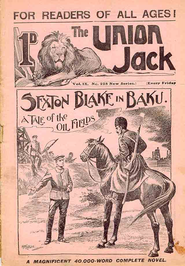 Sexton Blake in Baku UNION JACK · New series · Issue 228 · 22/2/1908 · Amalgamated Press · 1d by Anon. (E. J. Gannon) · Illustrator: H. M. Lewis Other content: Ching-Ching Abroad by Anon.